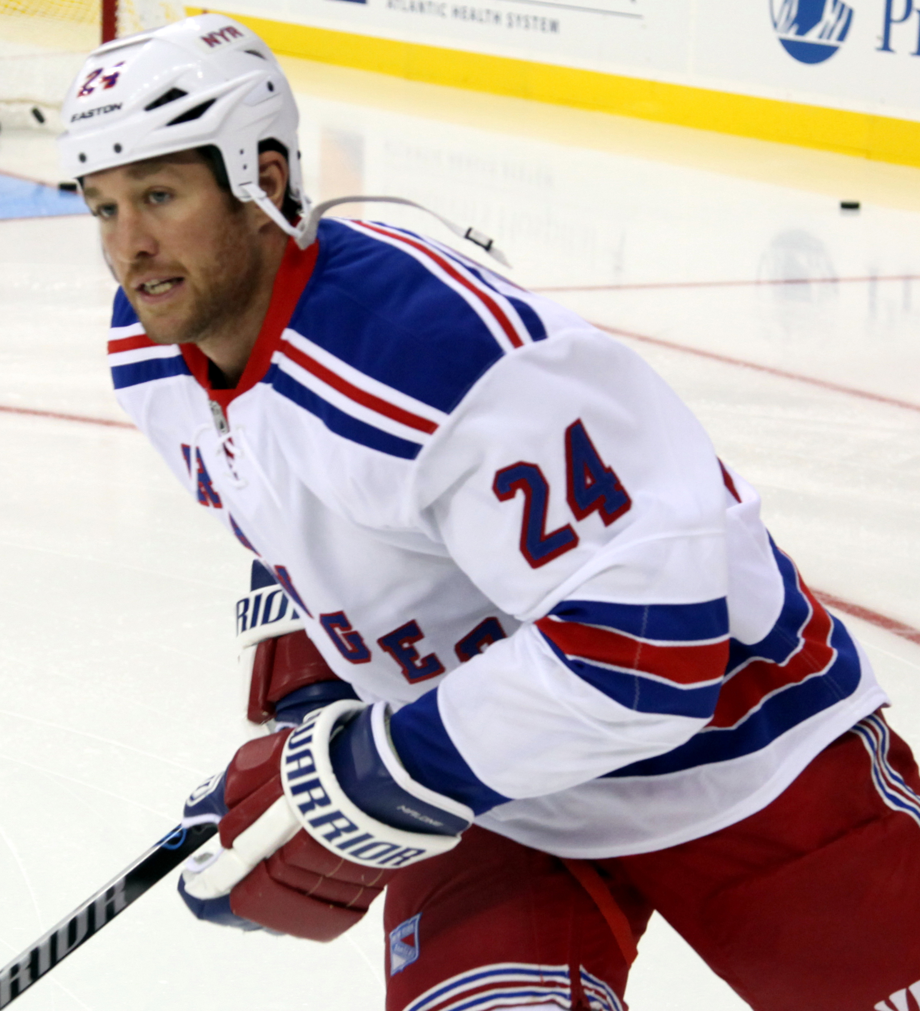 As a New York Ranger, October 2014.